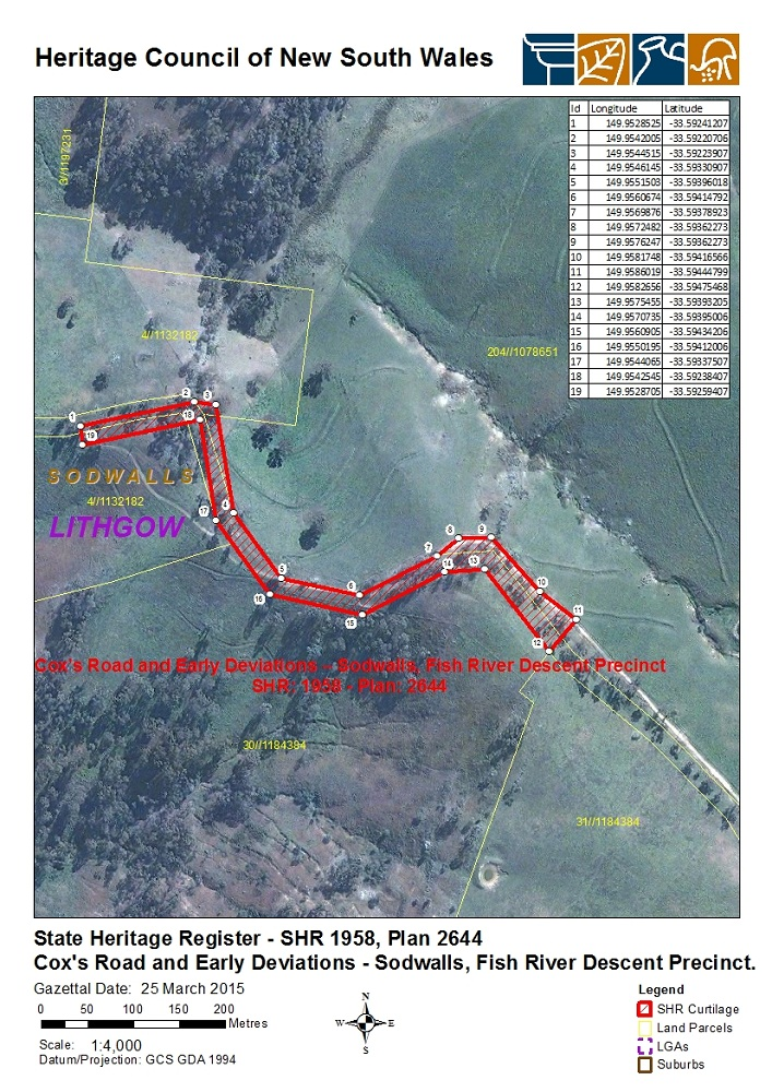 Cox's Road and Early Deviations - Sodwalls, Fish River Descent Precinct: SHR 1958. Heritage Council Plan 2644. Cox's Road and Early Deviations: Sodwalls, Fish River Descent Precinct - satellite view